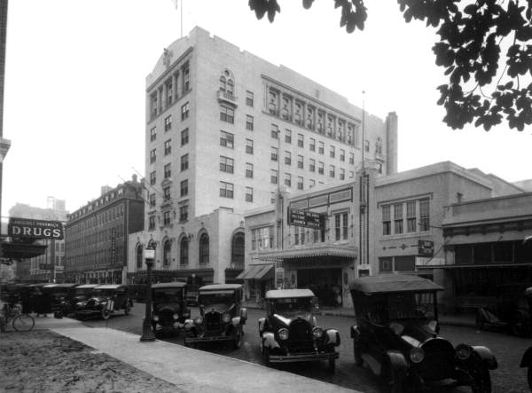 San Juan Hotel and Beacham Theater in Orlando, Florida circa 1922 marquee reads: The Second Orlando Picture The Burned Crucifix San Juan hotel and Beacham Theater - Orlando, Florida Marquee reads: "The Second Orlando Picture The Burned Crucifix" Information source: Florida Memory, State Library and Archives of Florida Image Number: RC05892 Year 192- Series Title General: Reference collection Physical Description 1 photoprint - b&w - 8 x 10 in. Subject Terms Theaters--Florida--Orlando Hotels--Florida--Orlando Automobiles Geographic Term Orlando (Fla)--Buildings, structures, etc Subject Corporate Beacham Theater (Orlando, Fla) San Juan Hotel (Orlando, Fla) Shelf number: 12365.